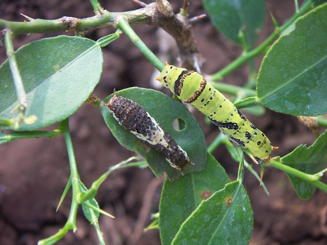 These are the Common Mormon (Papilio polytes) caterpillars in different instars. The caterpillars were found on the lemon tree and as they grew bigger they became more distinctly green